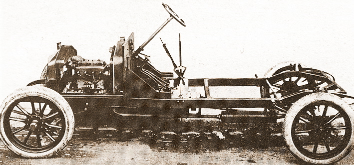 1911 Palladium 12/16 hp